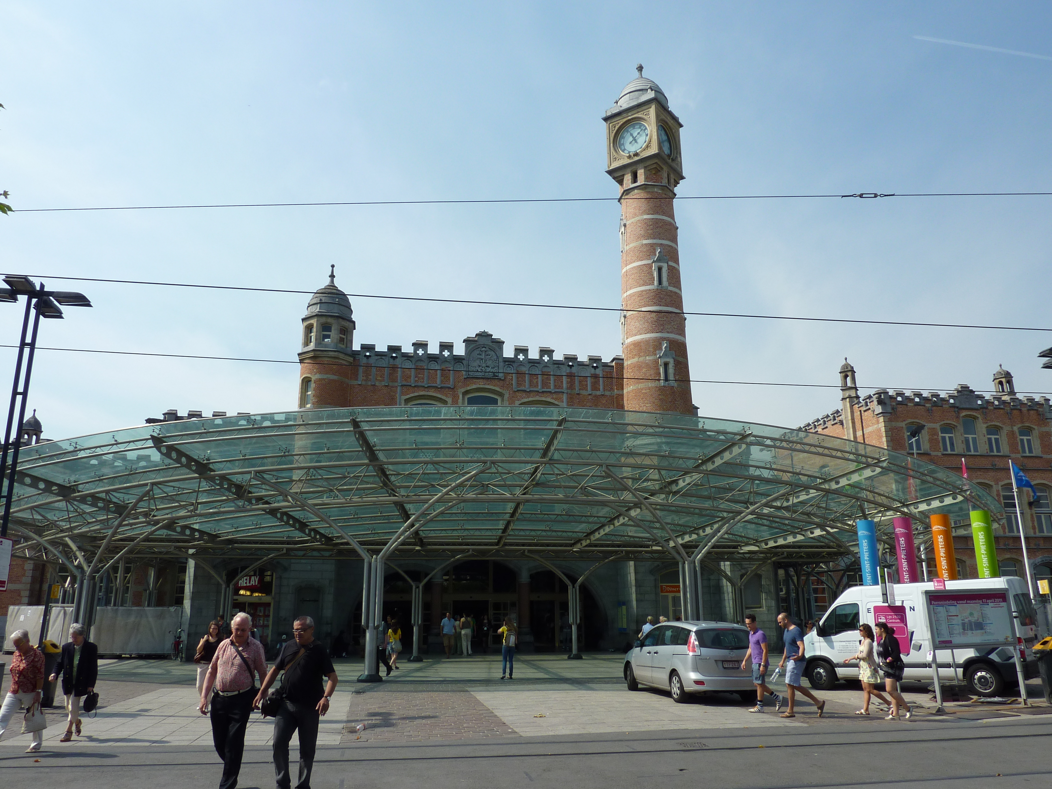 Gent-Sint-Pieters railway station taken in July, 2011.